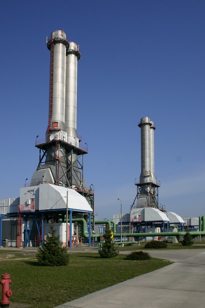 General Electric MS6001B gasturbines A4-D4 at the powerplant Ahrensfelde